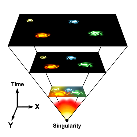 This illustration shows abstracted "slices" of space at different points in time. It is simplified as it shows only two of three spatial dimensions, to allow for the time axis to be displayed conveniently.